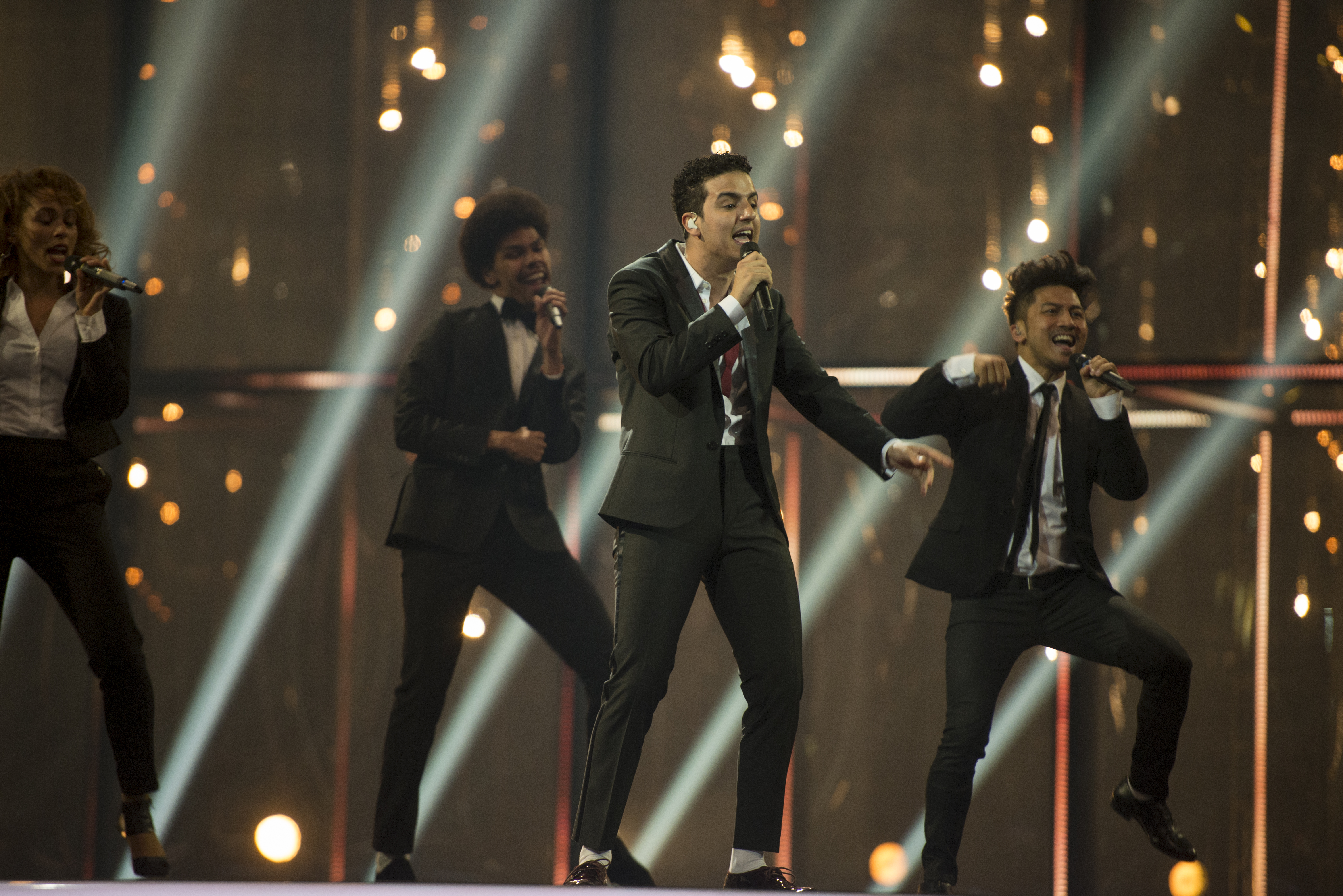 Basim representing Denmark with the song "Cliché Love Song" during the first dress rehearsal of the final of the Eurovision Song Contest 2014 Copenhagen. (Help translate this text)